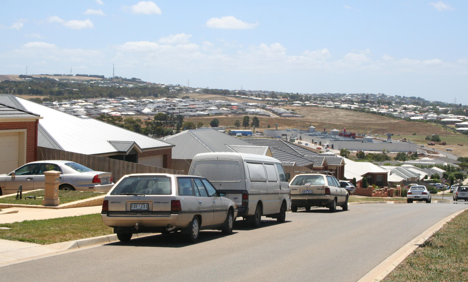 Overview of Waurn Ponds and Highton looking north from Rossack Drive - Geelong, Victoria, Australia